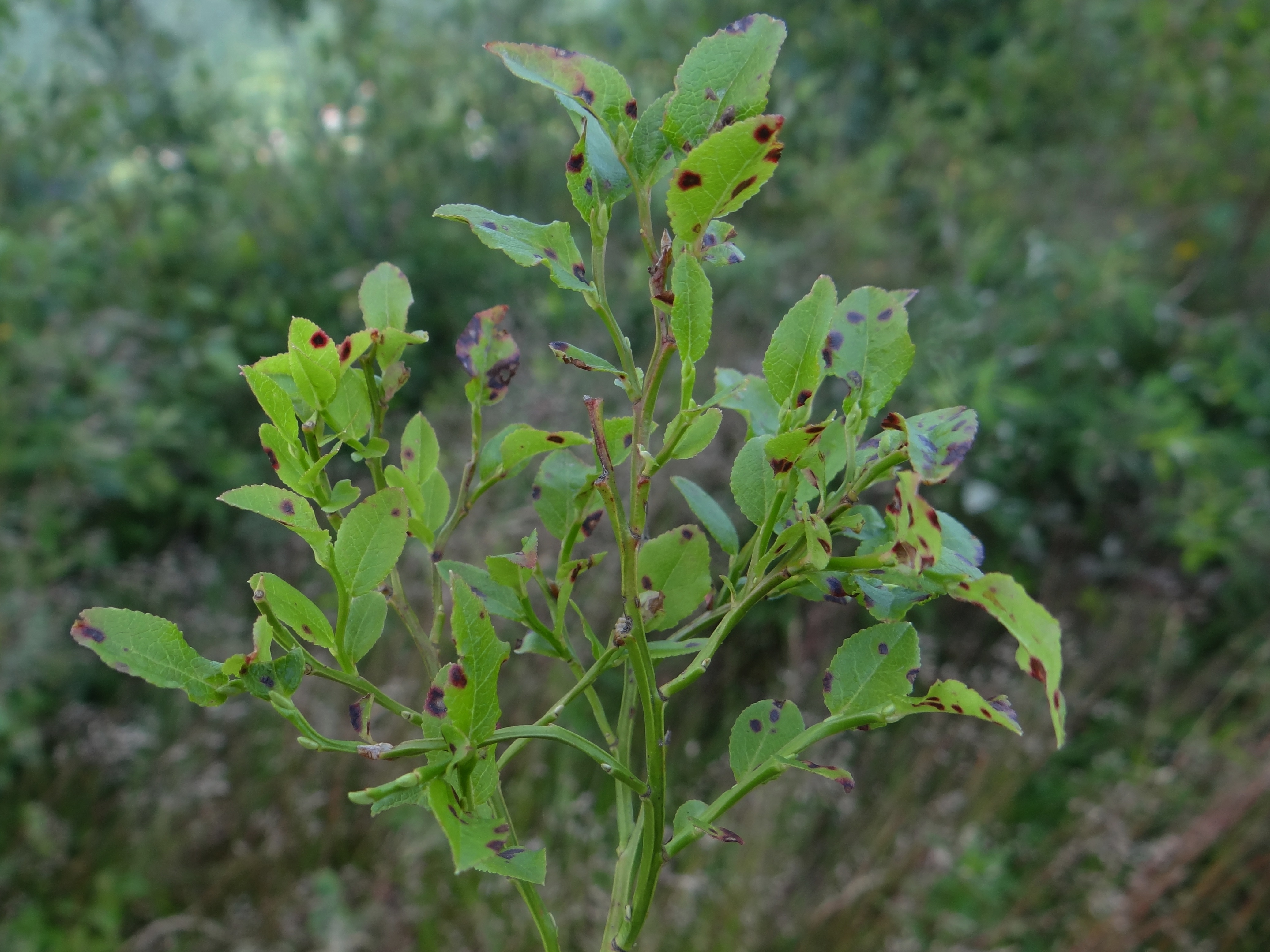 Valdensinia heterodoxa on Vaccinium myrtillus. Location: Poland, Beskid Wyspowy, Łopień